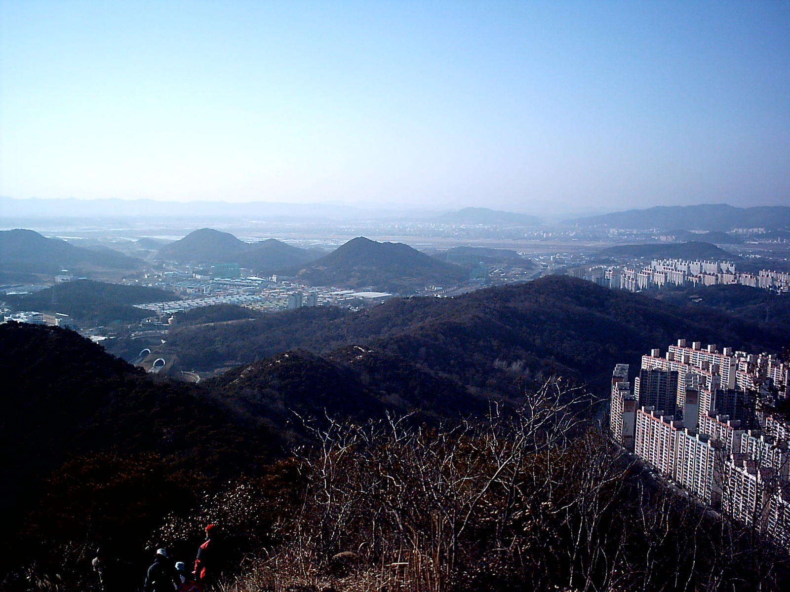 A view of Gwangju (in South Korea) that shows some mountains. This one wasn't used in the English wikipedia at the time of uploading, but its here just in case someone wants a different view for a different language version of Wikipedia or something. This picture was taken by CD and is fully given as GFDL for use in Wikipedia. Enjoy.